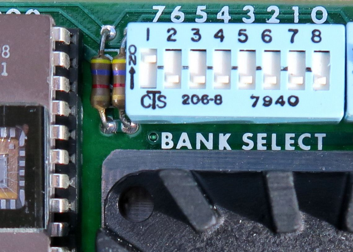 Bank Select Switch on Cromemco 16KPR memory board. This provided the capability to locate the memory board in one or more of 8 distinct memory banks. Cromemco was the first microcomputer manufacturer to offer bank switching to expand the effective microcomputer memory space from 64K bytes to 512K bytes.